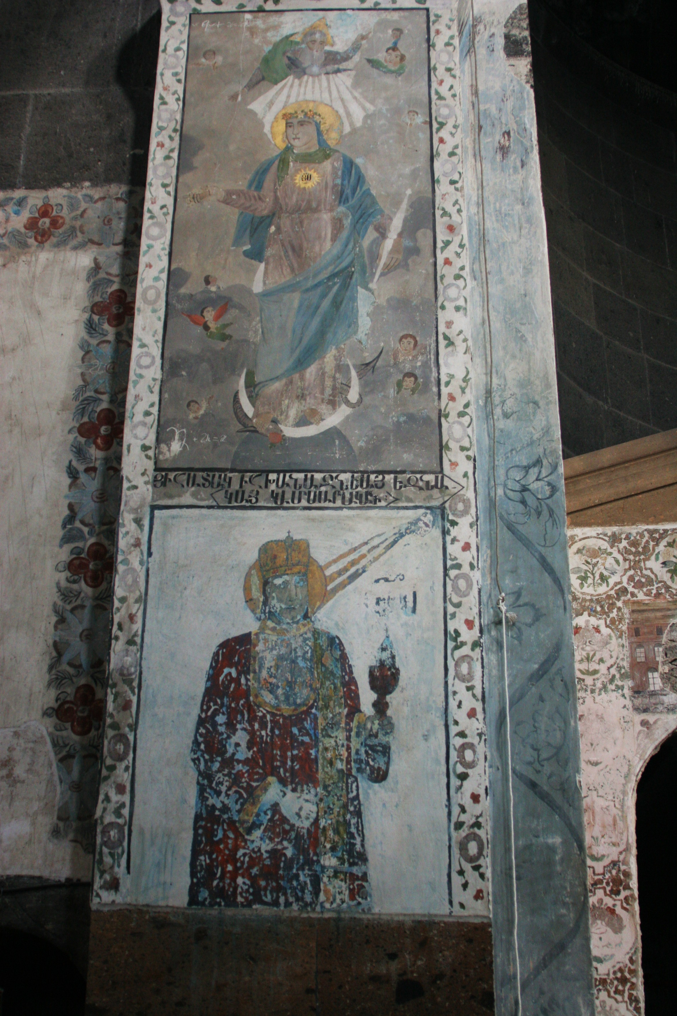 Interior frescoes of S. Gevorg Church of Mughni.